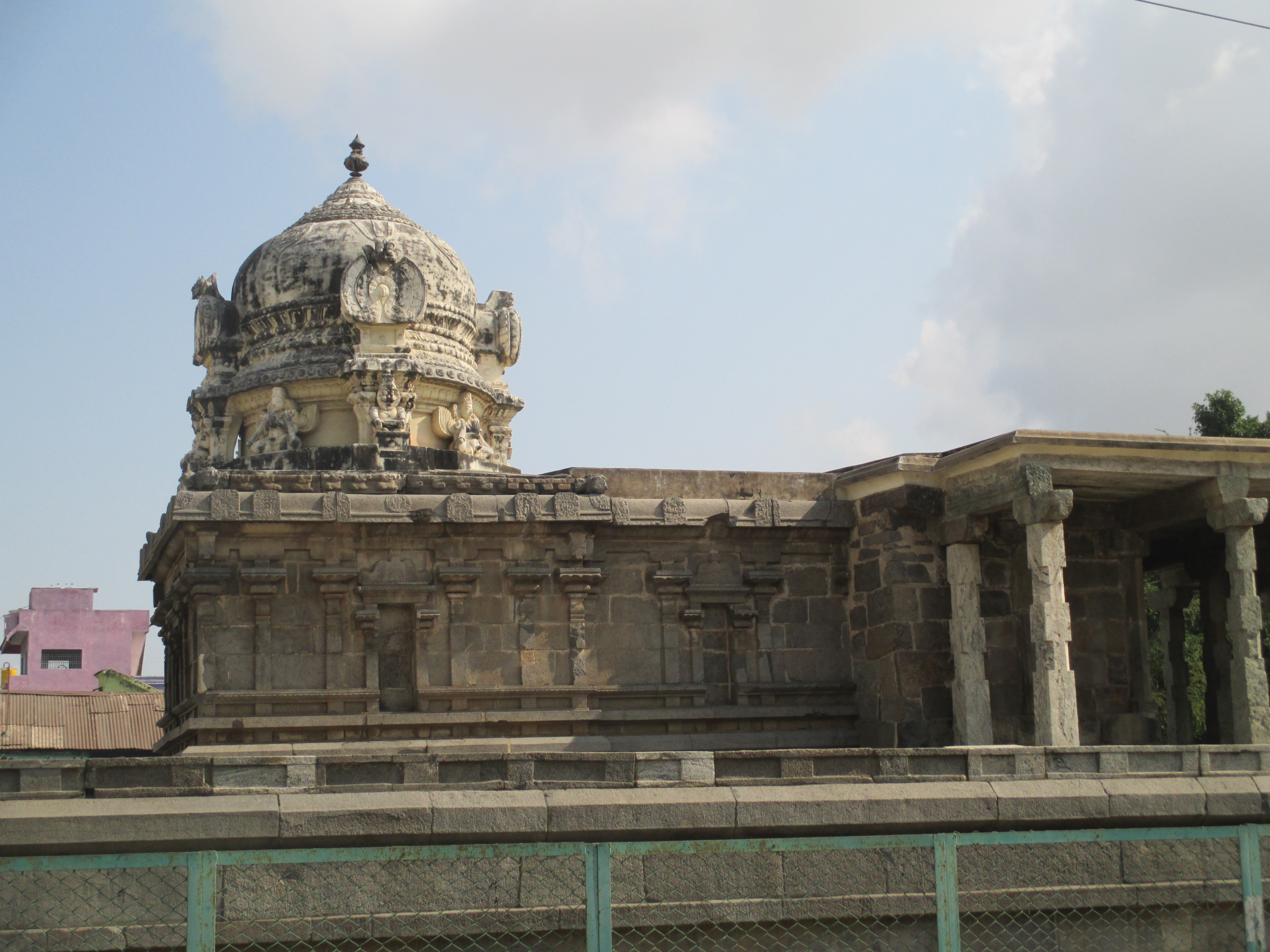 Vaikunda Perumal Temple, Uthiramerur